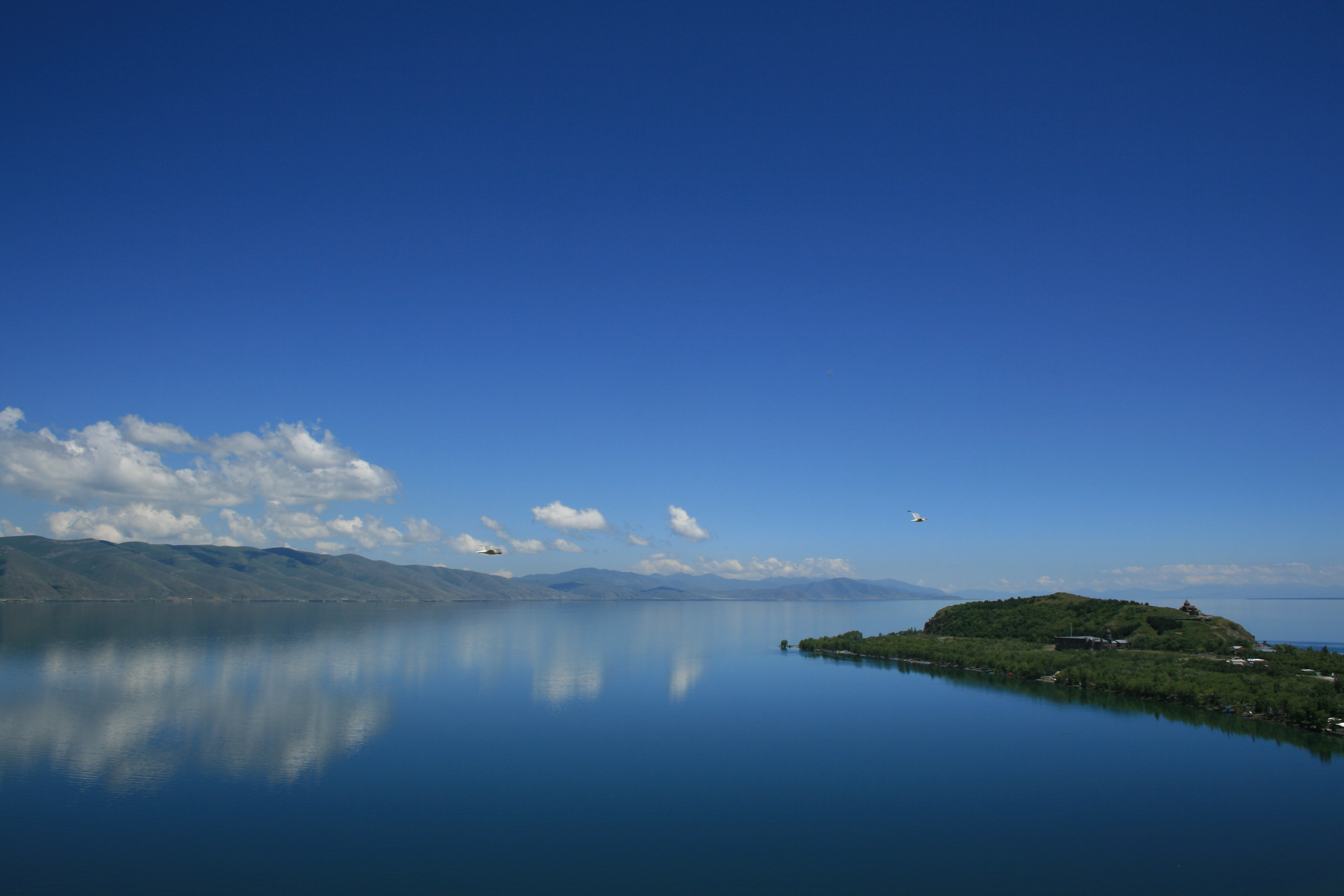 Lake Sevan in Armenia The 9th century Armenian church and monastery, Sevanavank, can be seen on the right on Sevan peninsula. Before human intervention, the Sevan peninsula was once an island. (This picture is very high-resolution and makes for a great wallpaper.)